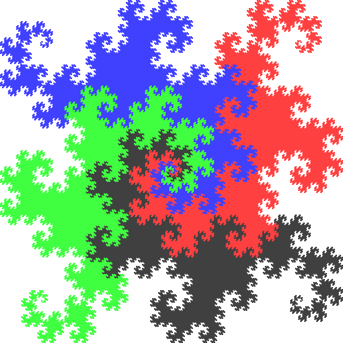 Spacefilling combination of four dragon curves Created with Python and xturtle graphics module